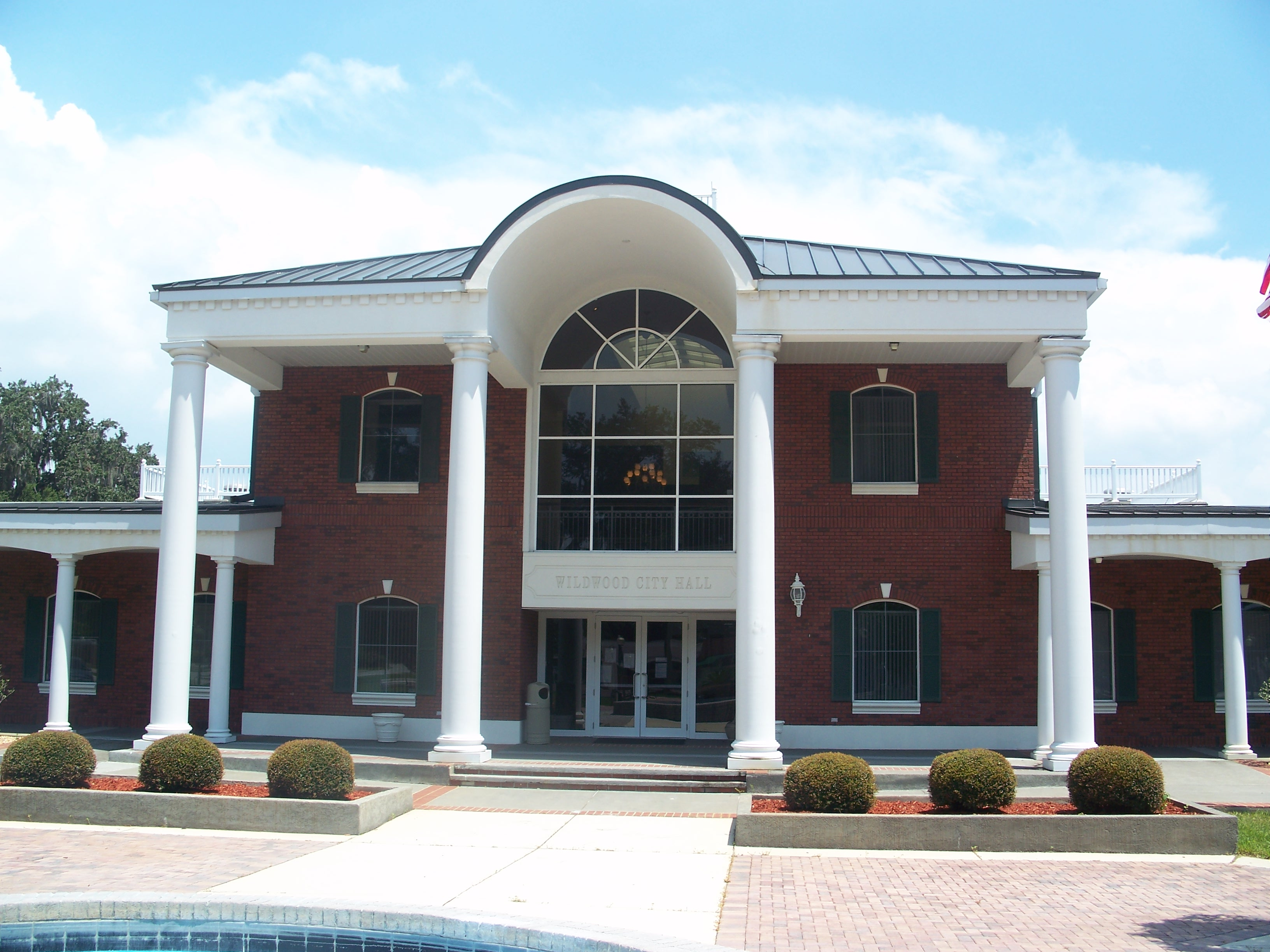 Wildwood, Florida: City hall, on US 301.